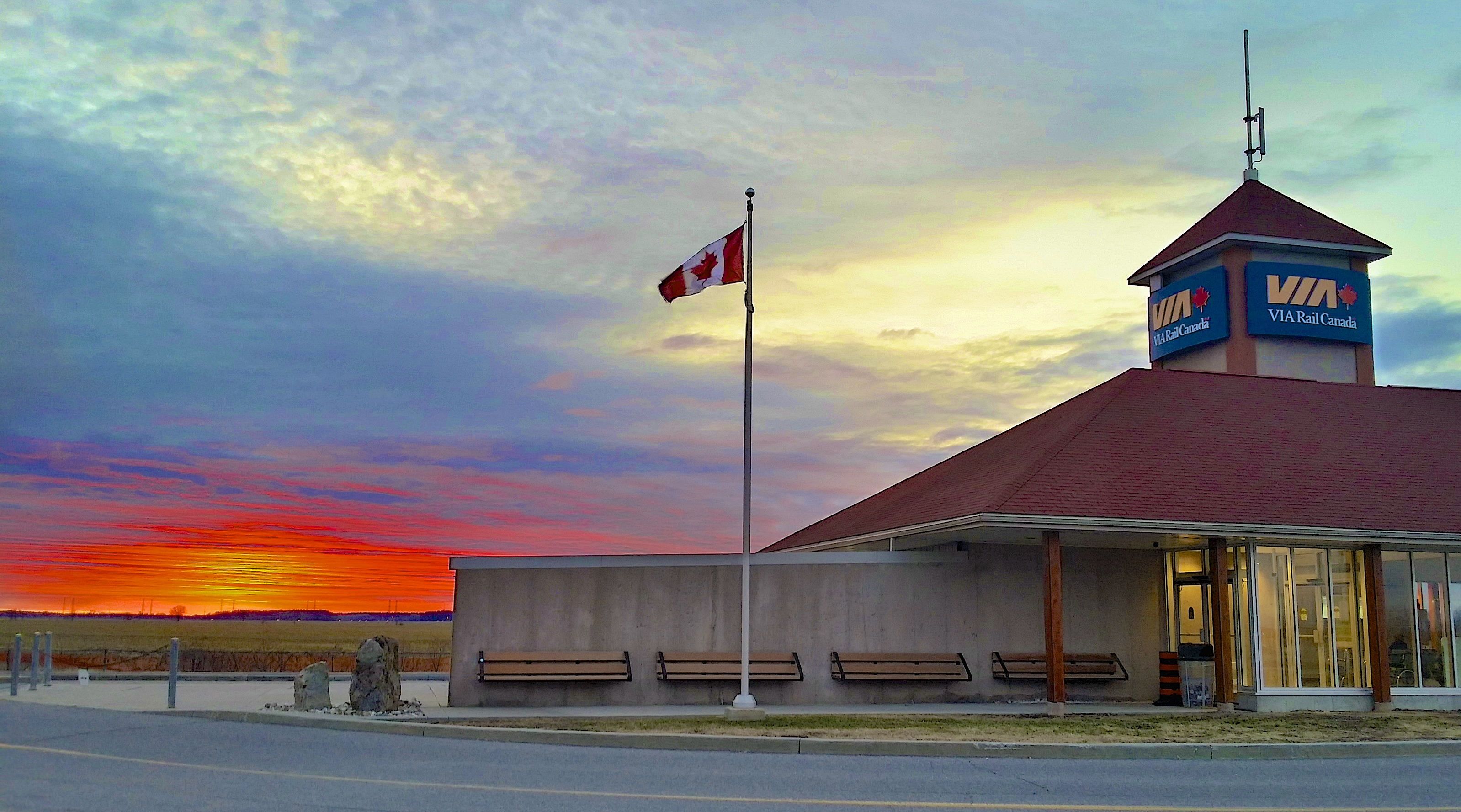 Sunset at Fallowfield Station in Barrhaven. I was on the bus approaching Fallowfield Station and had to watch a big red/orange sunset getting lower and lower on the horizon. When we got there I grabbed this capture with the cellphone. Pretty happy with the Samsung - over my old iPhone. Taken using the in-camera HDR mode